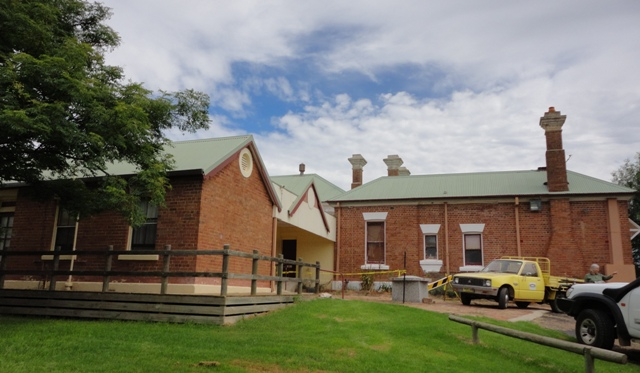 Cootamundra Domestic Training Home for Aboriginal Girls: Northern elevation. Building in foreground is the kitchen, the building between the original buildings encloses the original open courtyard.